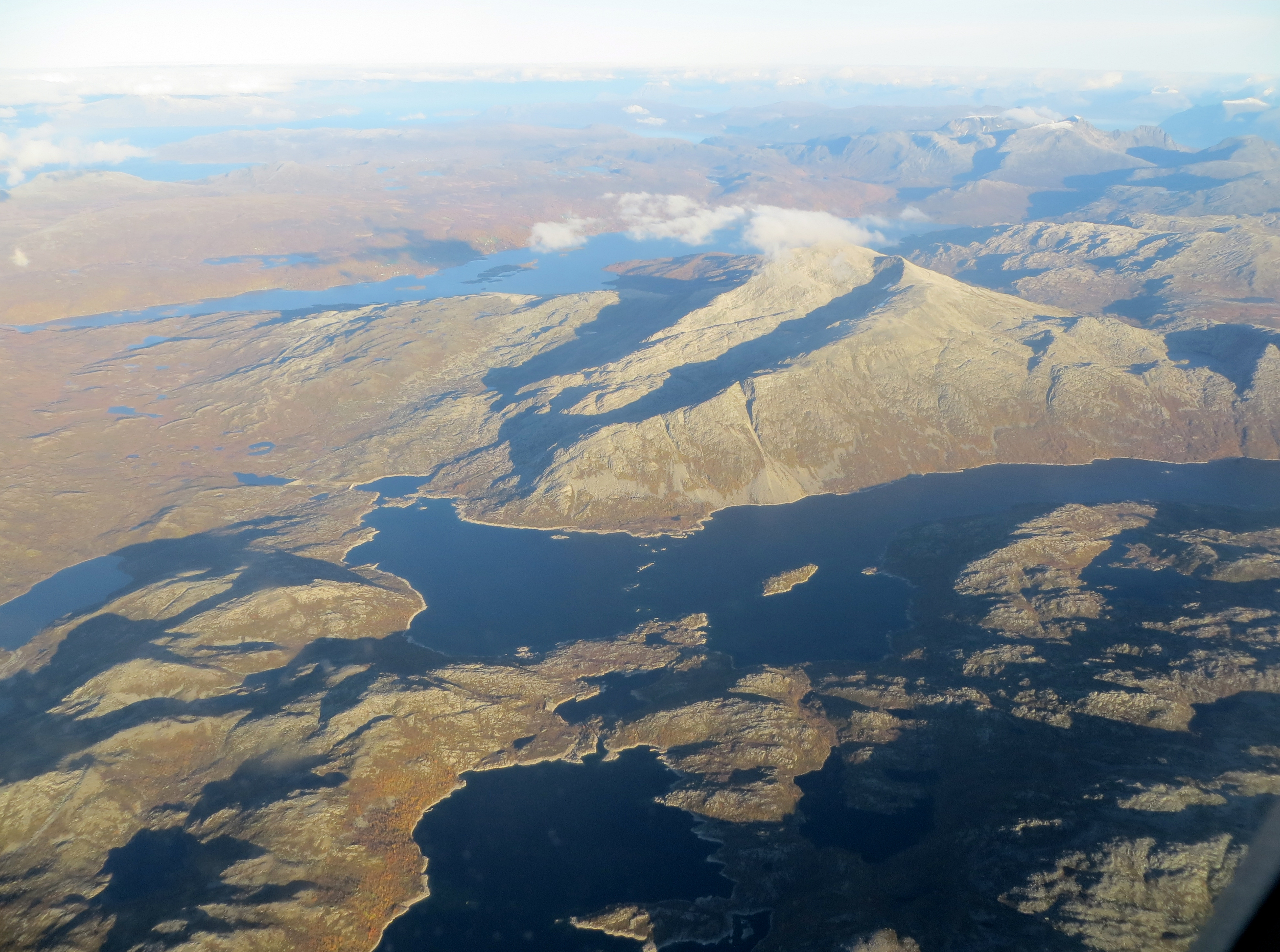 Aerial view over the island of Ringvassøya, on the border between the municipalities of Karlsøy and Tromsø - Troms, Norway. In the foreground is the lake Krokvatnet, in the center Svartevatnet and futher away, behind the mountains, is Skogsfjordvatnet.